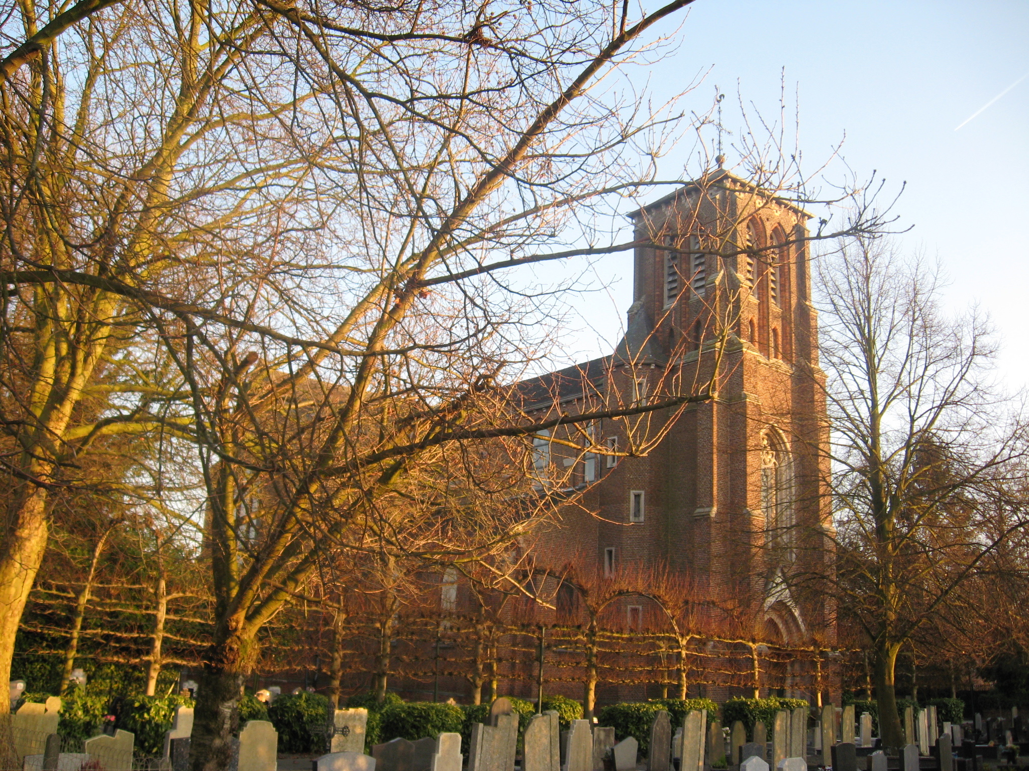 Church of the Nativity of Our Lady in Kapellen, Glabbeek, Flemish Brabant, Belgium